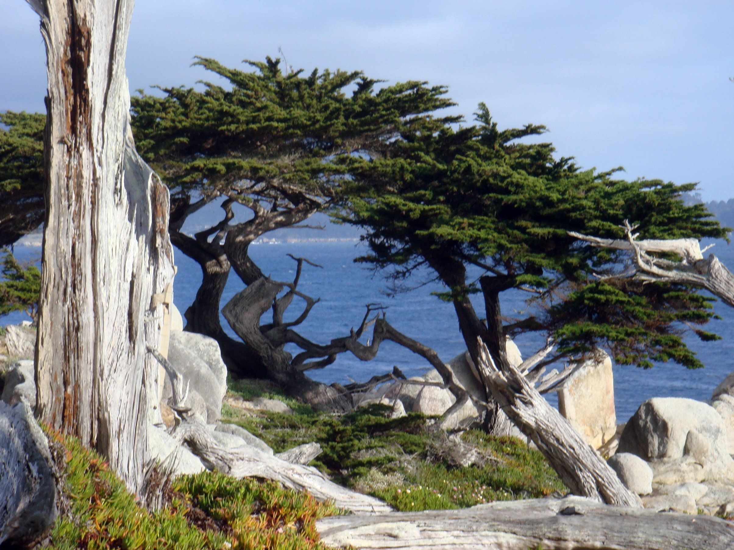 Cupressus macrocarpa, Pescadero Point, Pebble Beach, Monterey, California, 36°33'41"N 121°57'10"W.